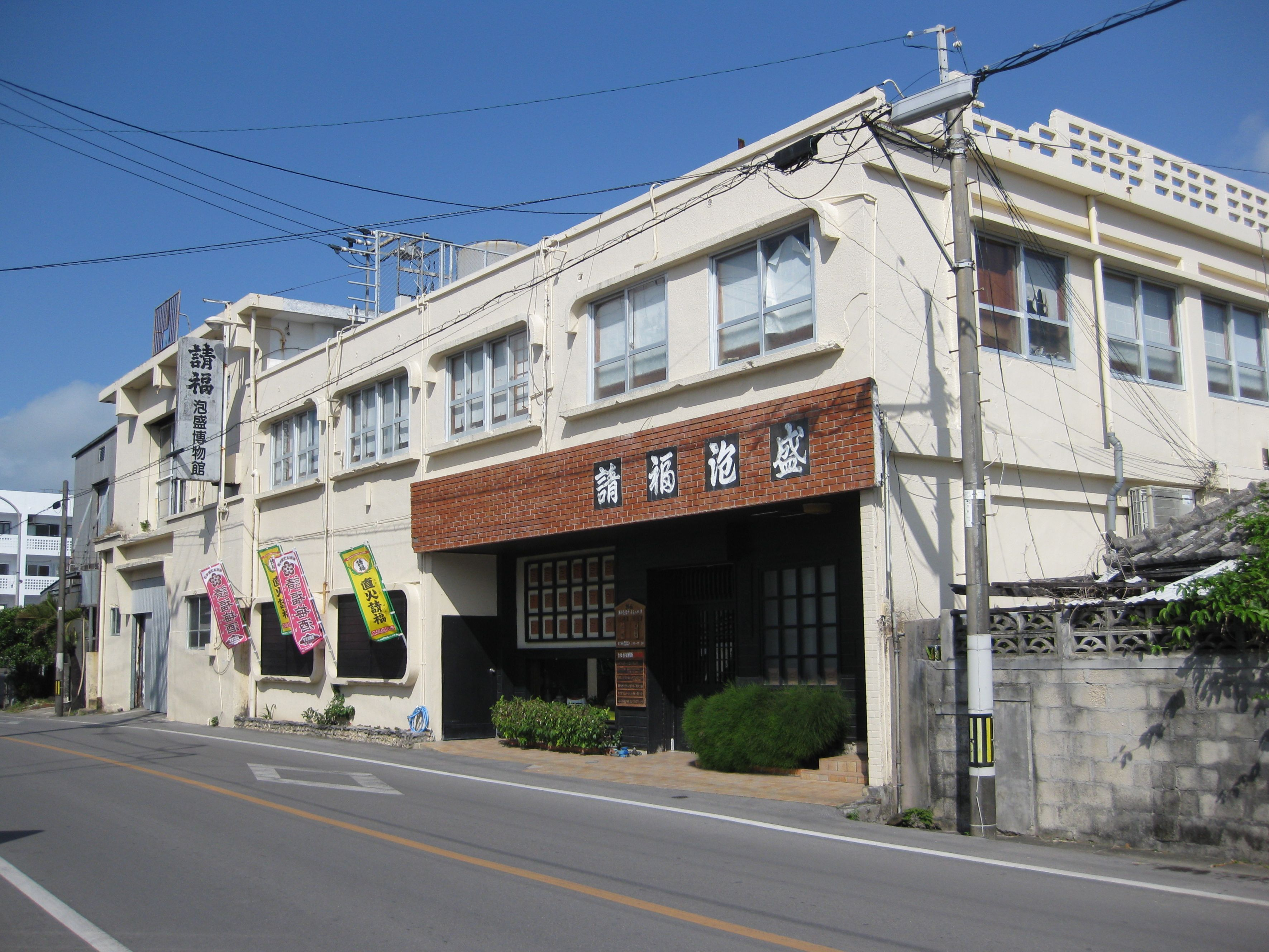 Seifuku Distillery in Okinawa, Japan